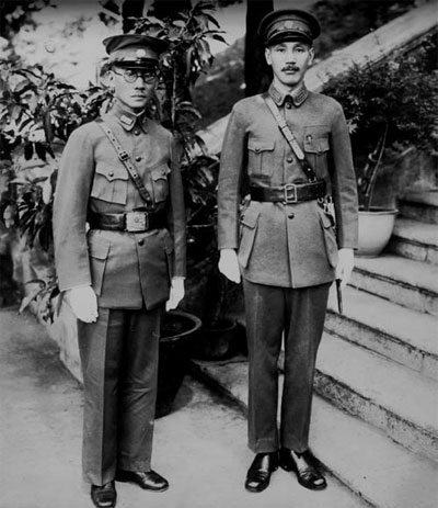 Warlord Long Yun and Generalissimo Chiang Kai-shek